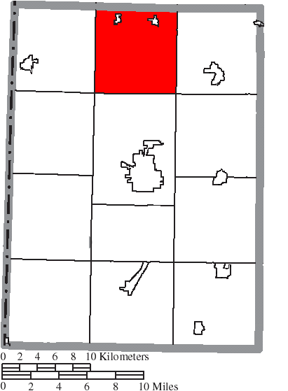 Map of the municipal and township boundaries of Preble County, Ohio, United States, as of the 2000 census, with the location of Monroe Township highlighted. Township borders are shown only in unincorporated areas in order to differentiate incorporated and unincorporated areas more clearly.